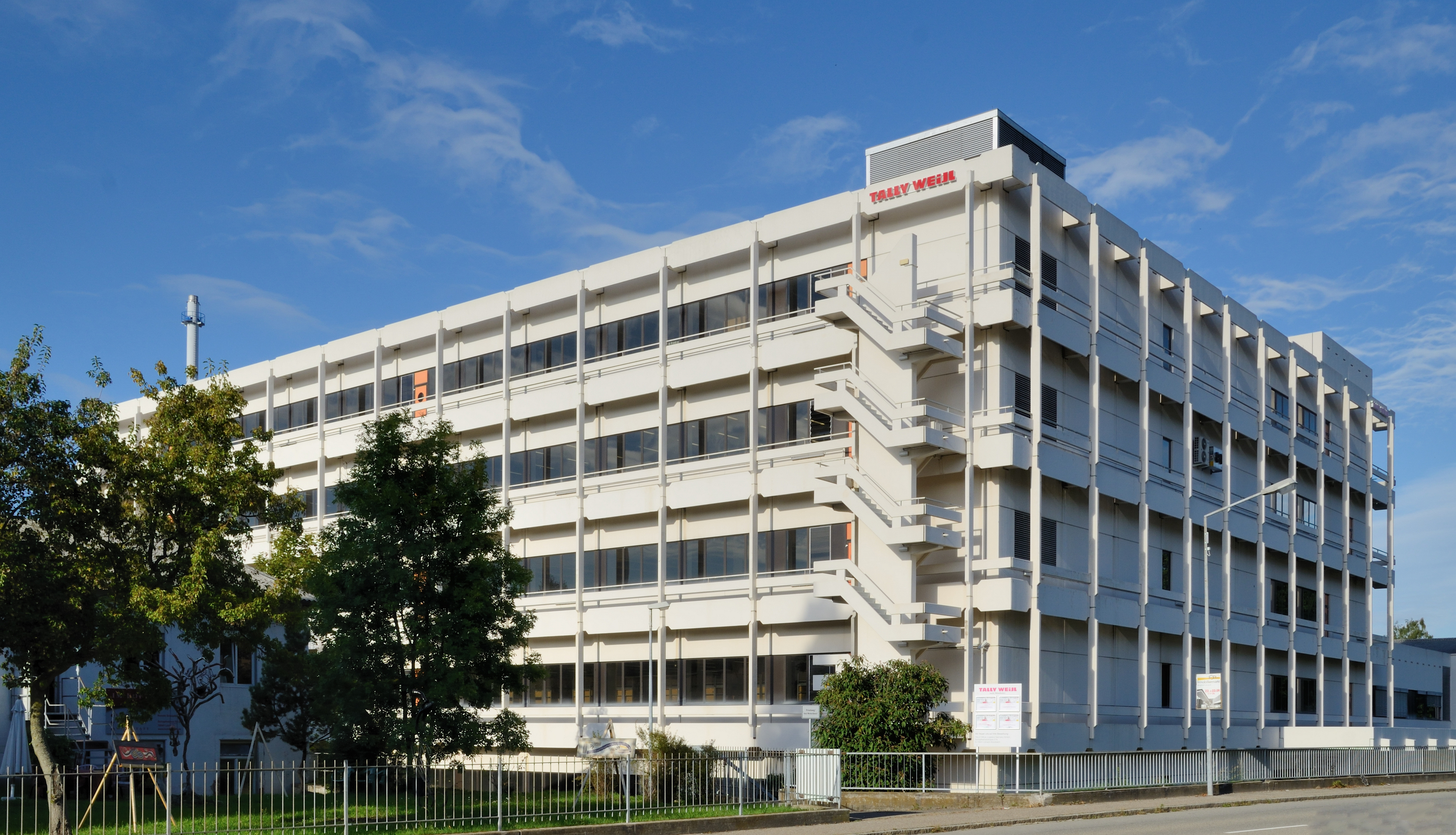 Lörrach-Brombach: building Schopfheimer Straße 27a (Tally Weijl distribution centre)